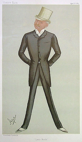 Caricature of Colonel George E. Gouraud. Caption read "Little Menlo".